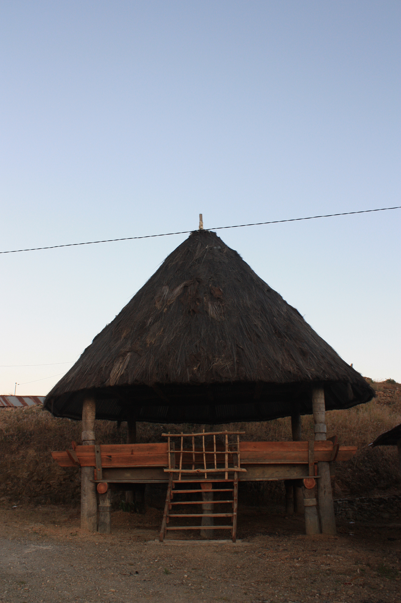 Timor-Leste: District Ermera, Sub-District Letefoho, Suco Ducurai